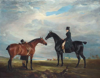 Portrait of Frank Hall Standish (1799-1840) sitting astride his black mare at a meeting of the Quorn Hunt. Painted by John Ferneley (1782-1860) in 1819. Painting sold by Christies for £164,000 in 2005.